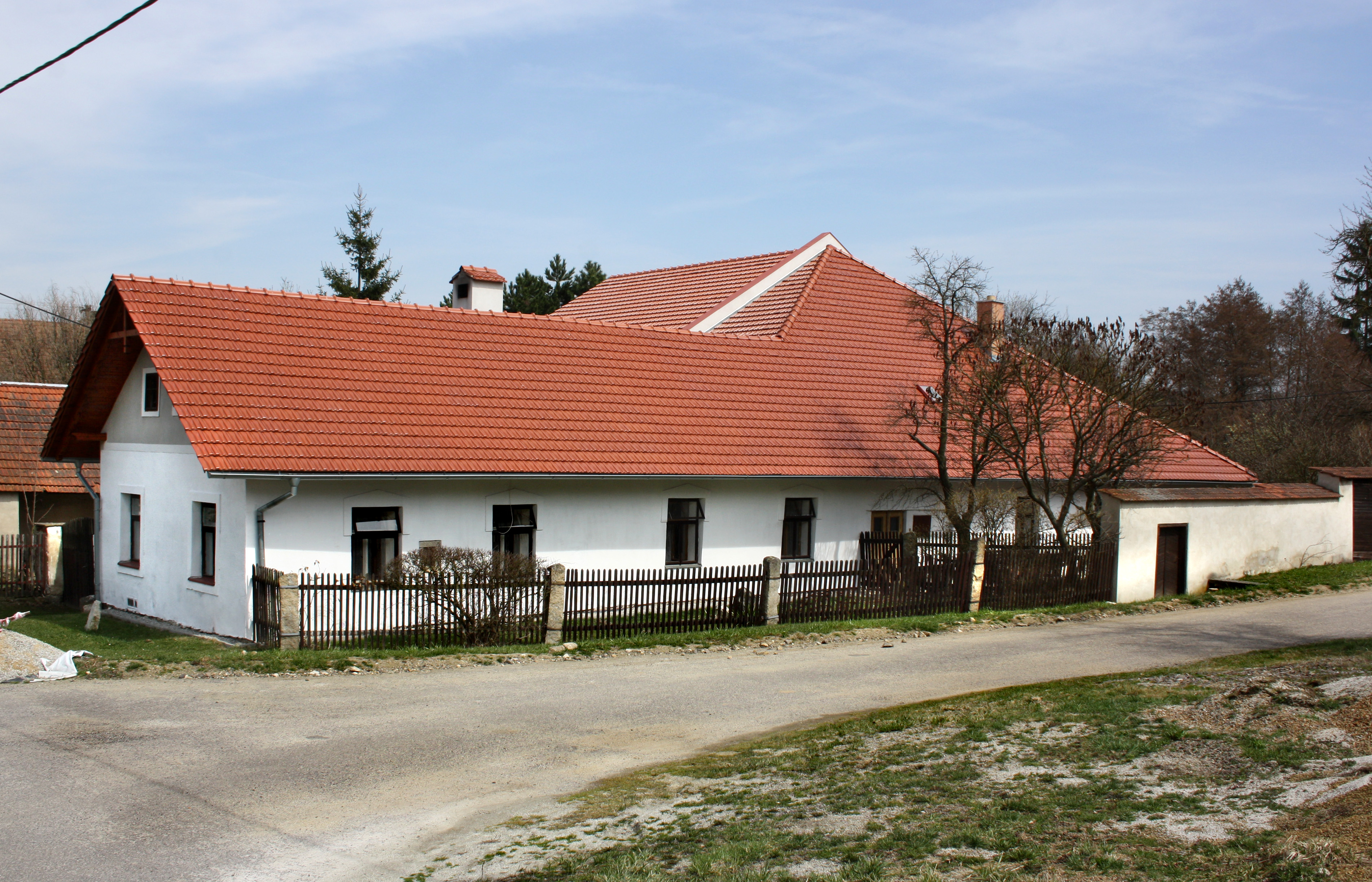 Lower part of Horní Radslavice village